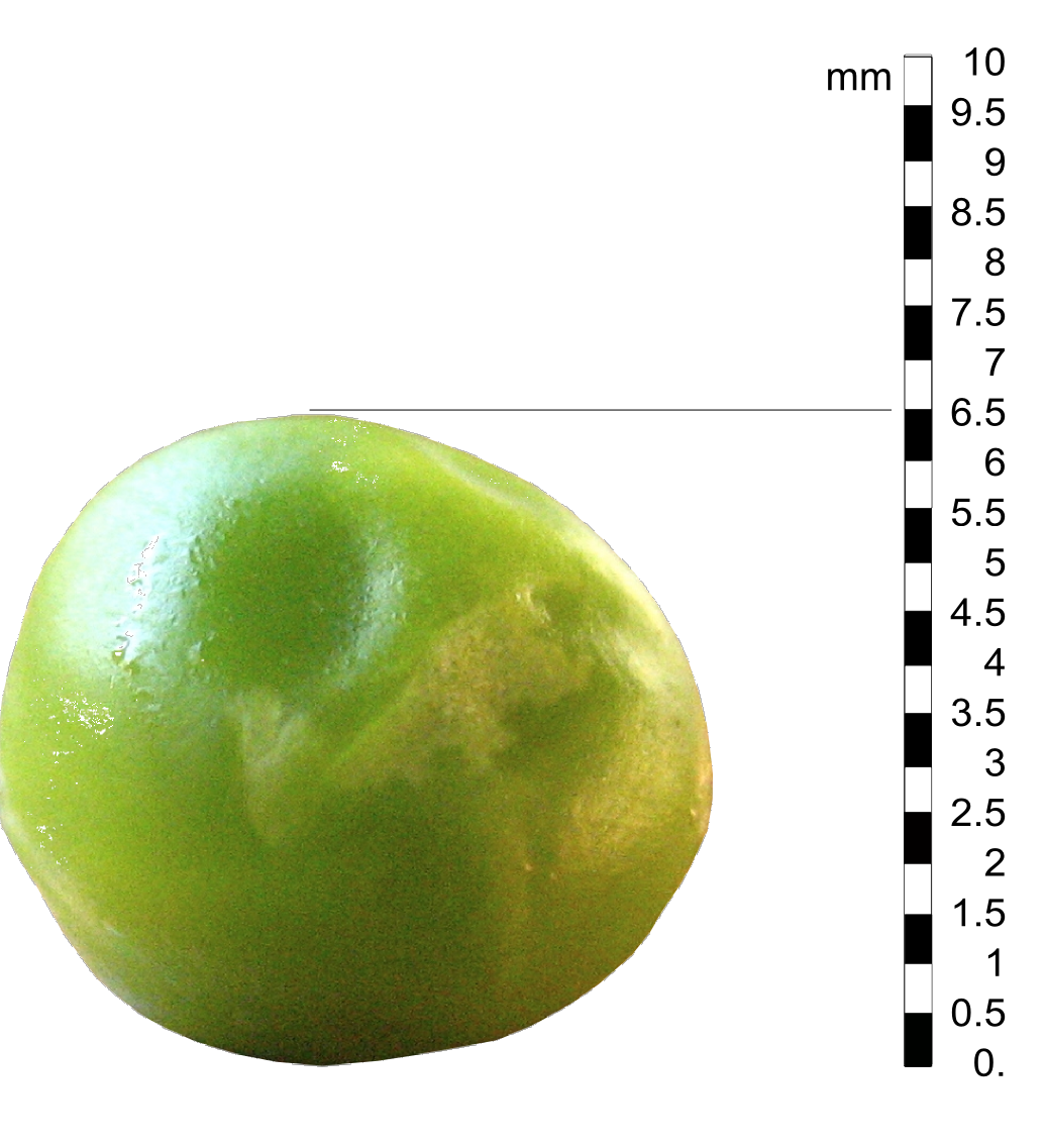 Pea